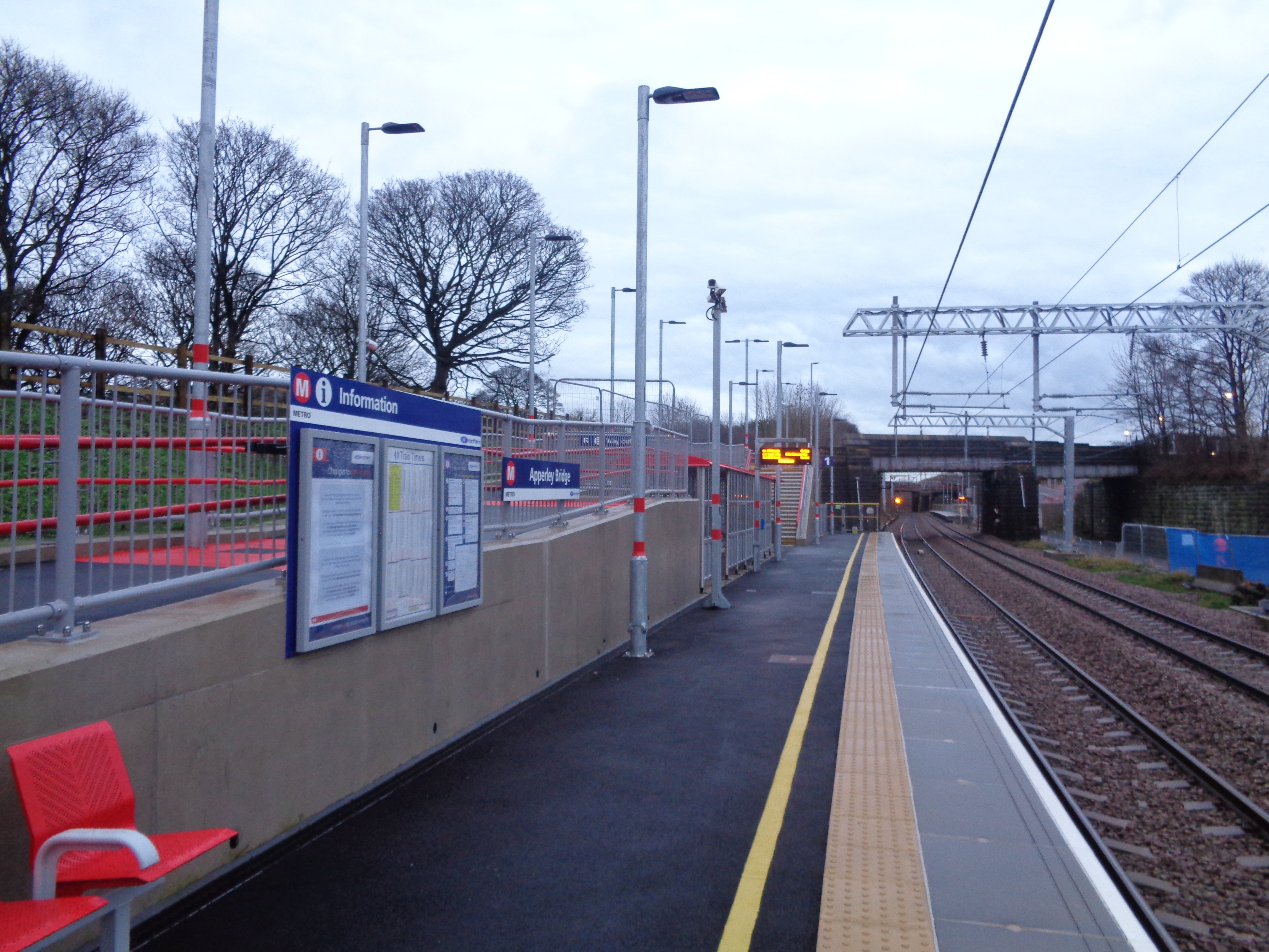 Platform 1 (Leeds bound), Apperley Bridge railway station in Apperley Bridge, Bradford, West Yorkshire. The railway station opened on Sunday the 13th of December 2015. Taken on the afternoon of Tuesday the 22nd of December 2015 (nine days after opening).